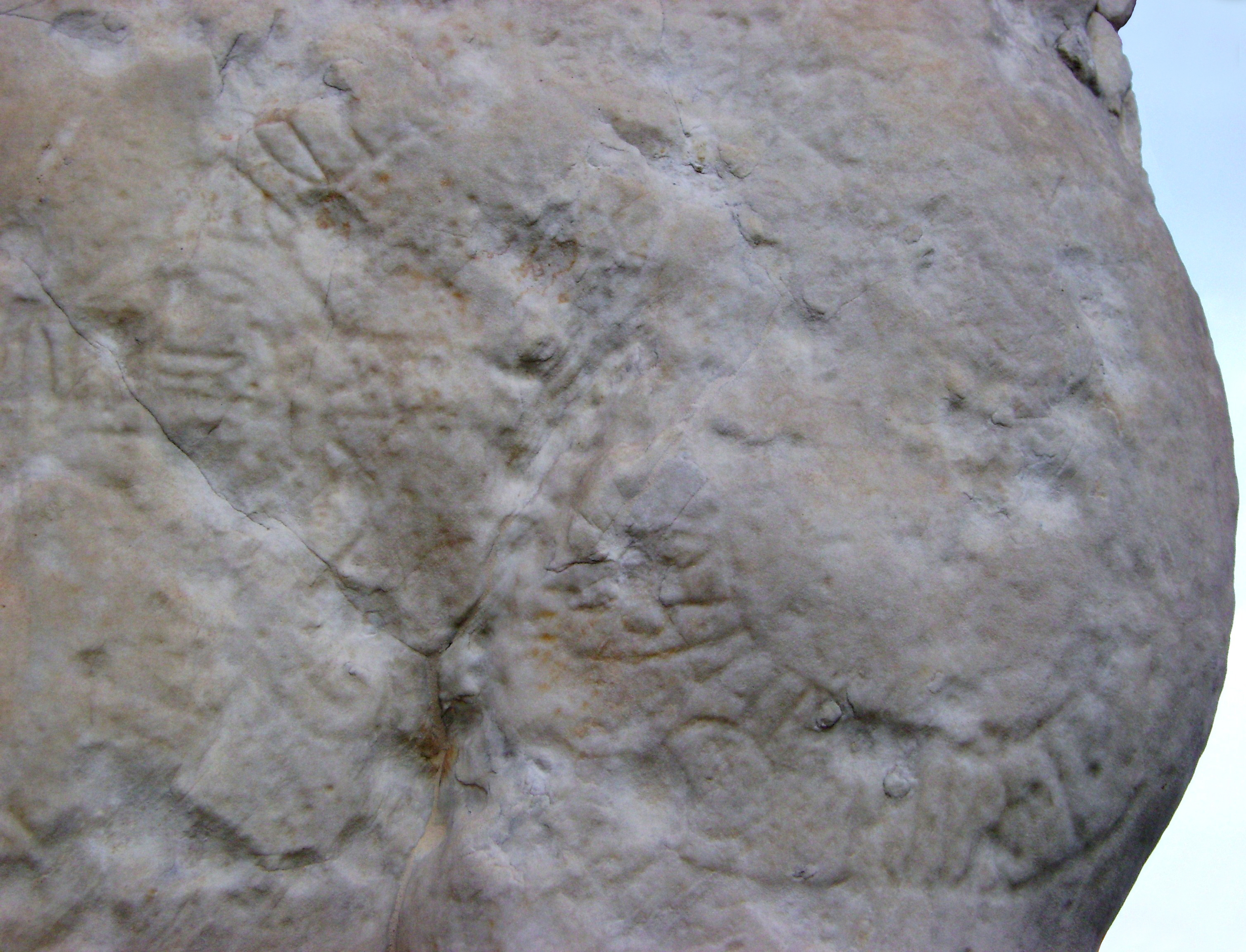 The Piraeus Lion is one of four lion statues on display at the Venetian Arsenal, where it was displayed as a symbol of Venice's patron saint, Saint Mark. It was originally located in Piraeus, the ancient harbour of Athens. It was looted by Venetian naval commander Francesco Morosini in 1687 as plunder taken in the Great Turkish War against the Ottoman Empire.